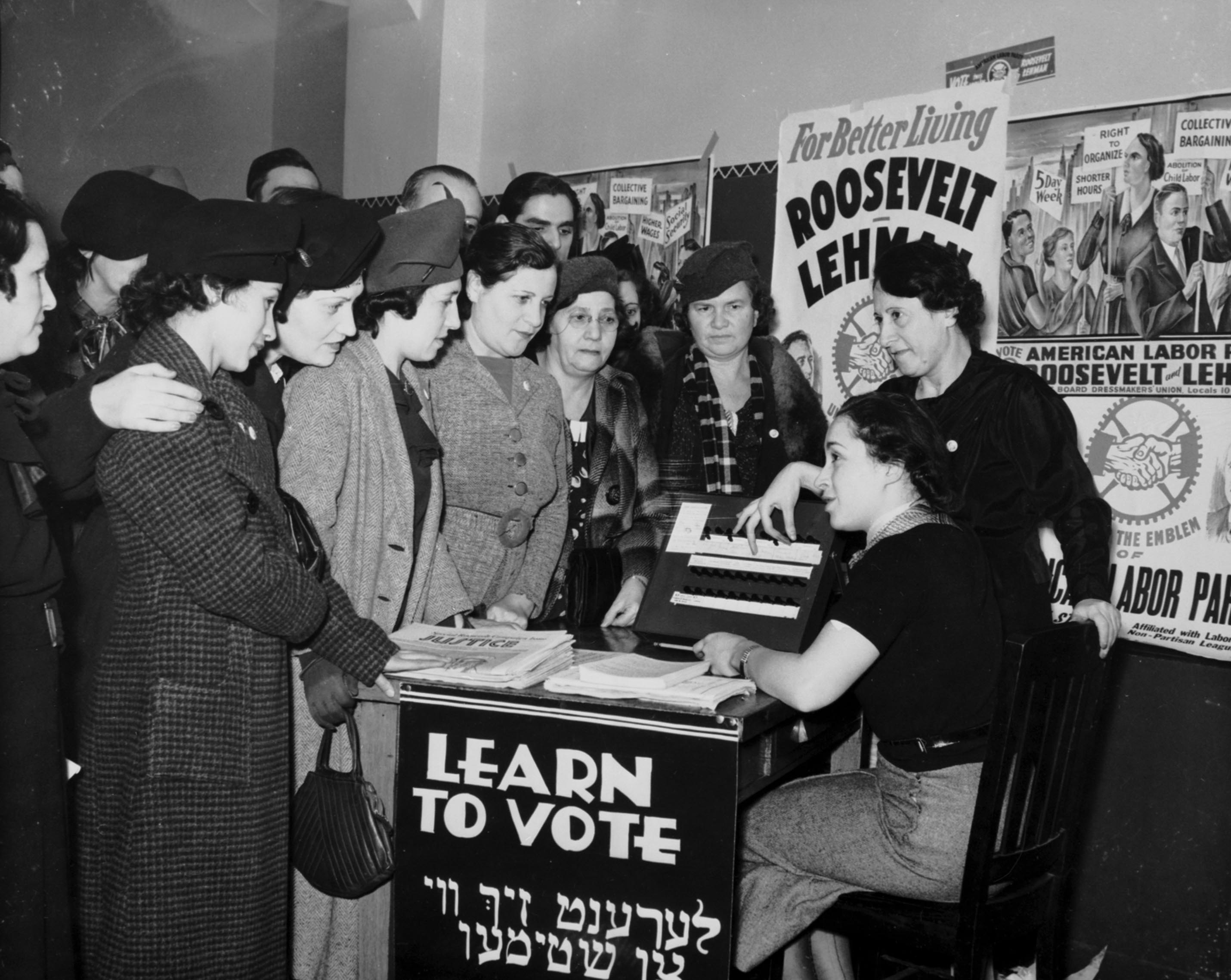 Women surrounded by posters in English and Yiddish supporting Franklin D. Roosevelt, Herbert H. Lehman, and the American Labor Party teach other women how to vote, 1935. International Ladies Garment Workers Union Photographs (1885-1985) Kheel Center for Labor-Management Documentation and Archives,Cornell University Library.